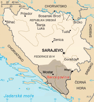 Map of Bosnia and Herzegovina with marked Herzegovina with Czech description.